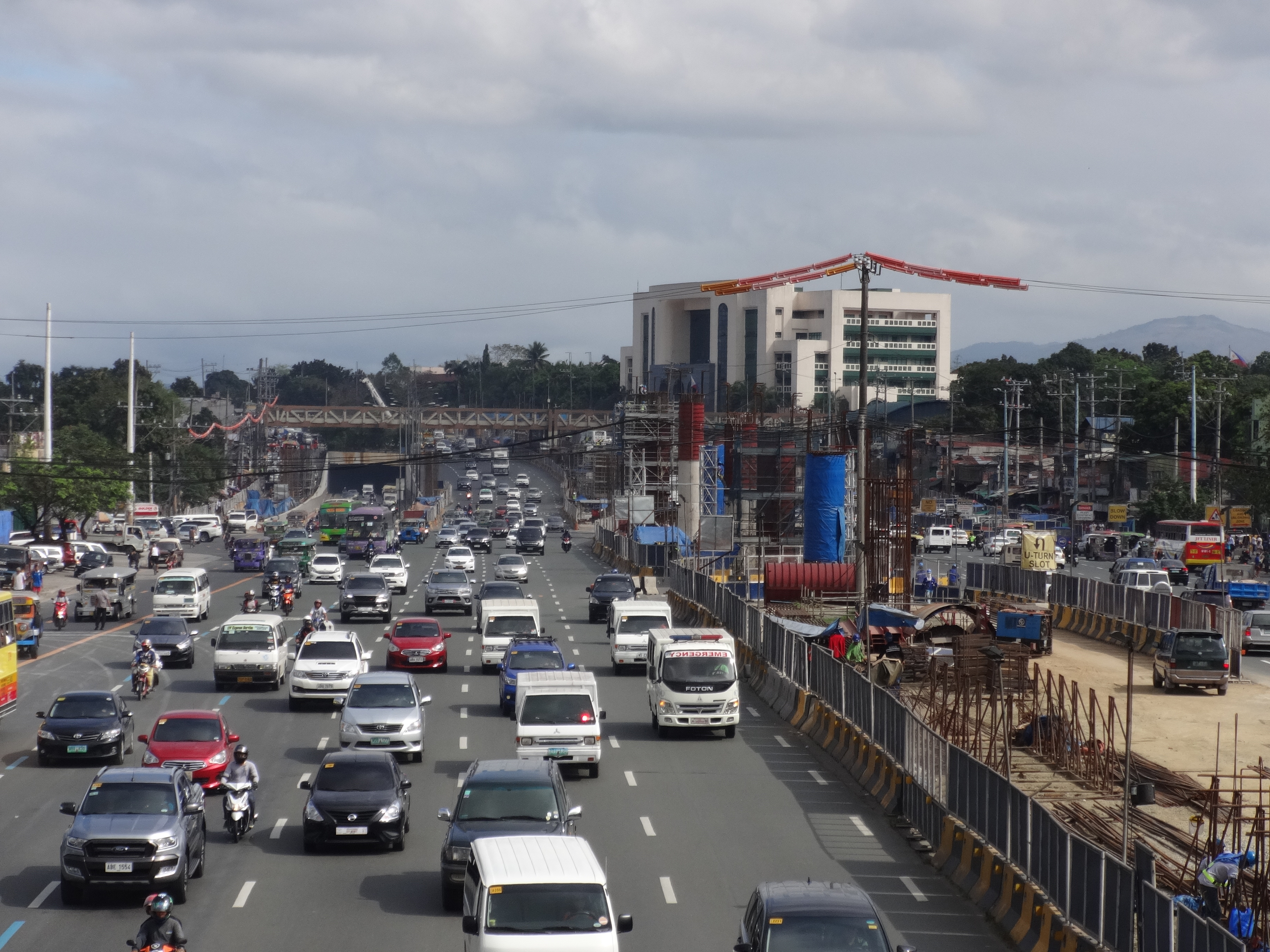 Construction of Mass Rail Transit Line 7 (MRT-7) along Commonwealth Avenue, Quezon City